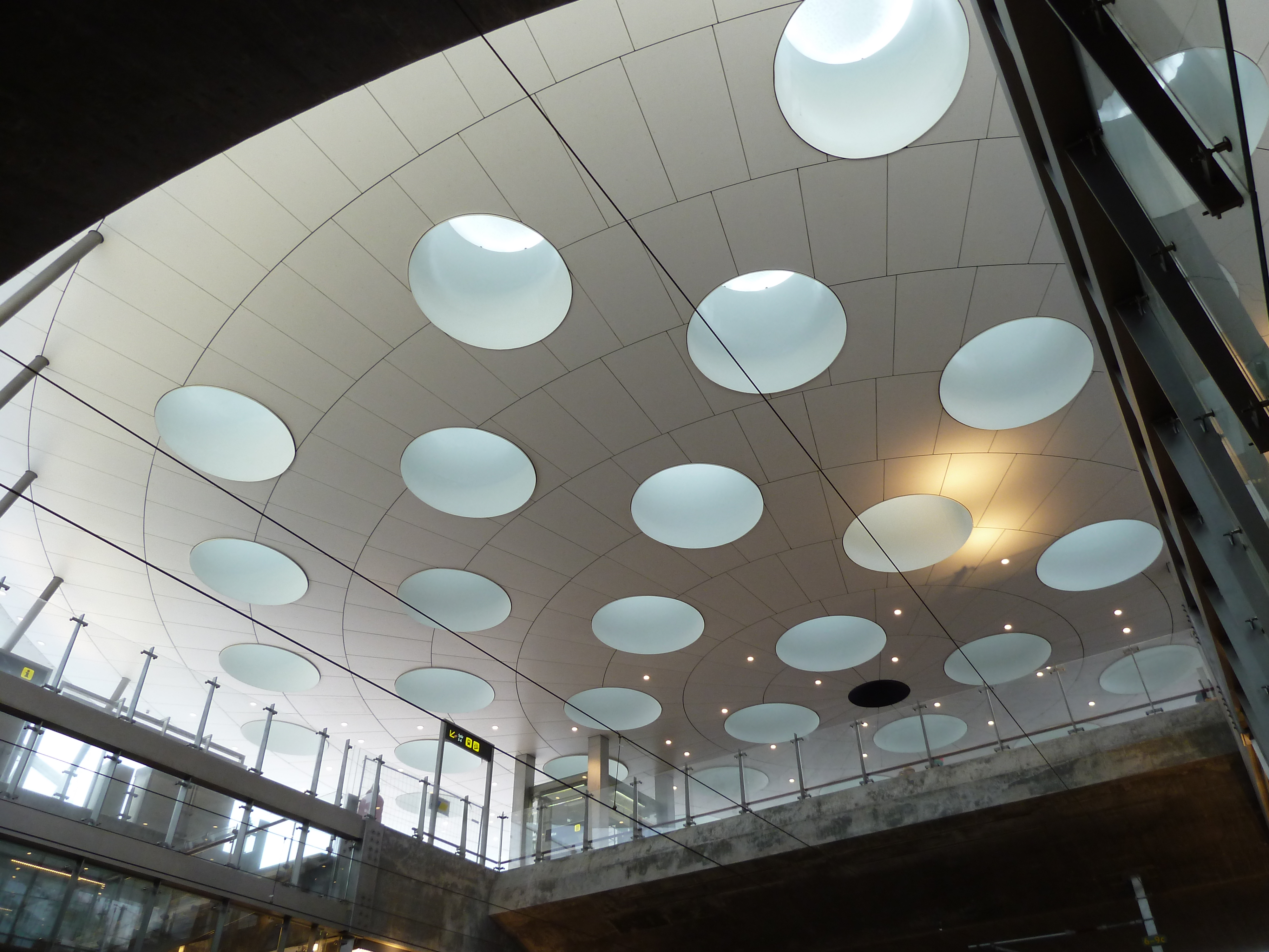 Really nice train station. Looks like a UFO landed from outside